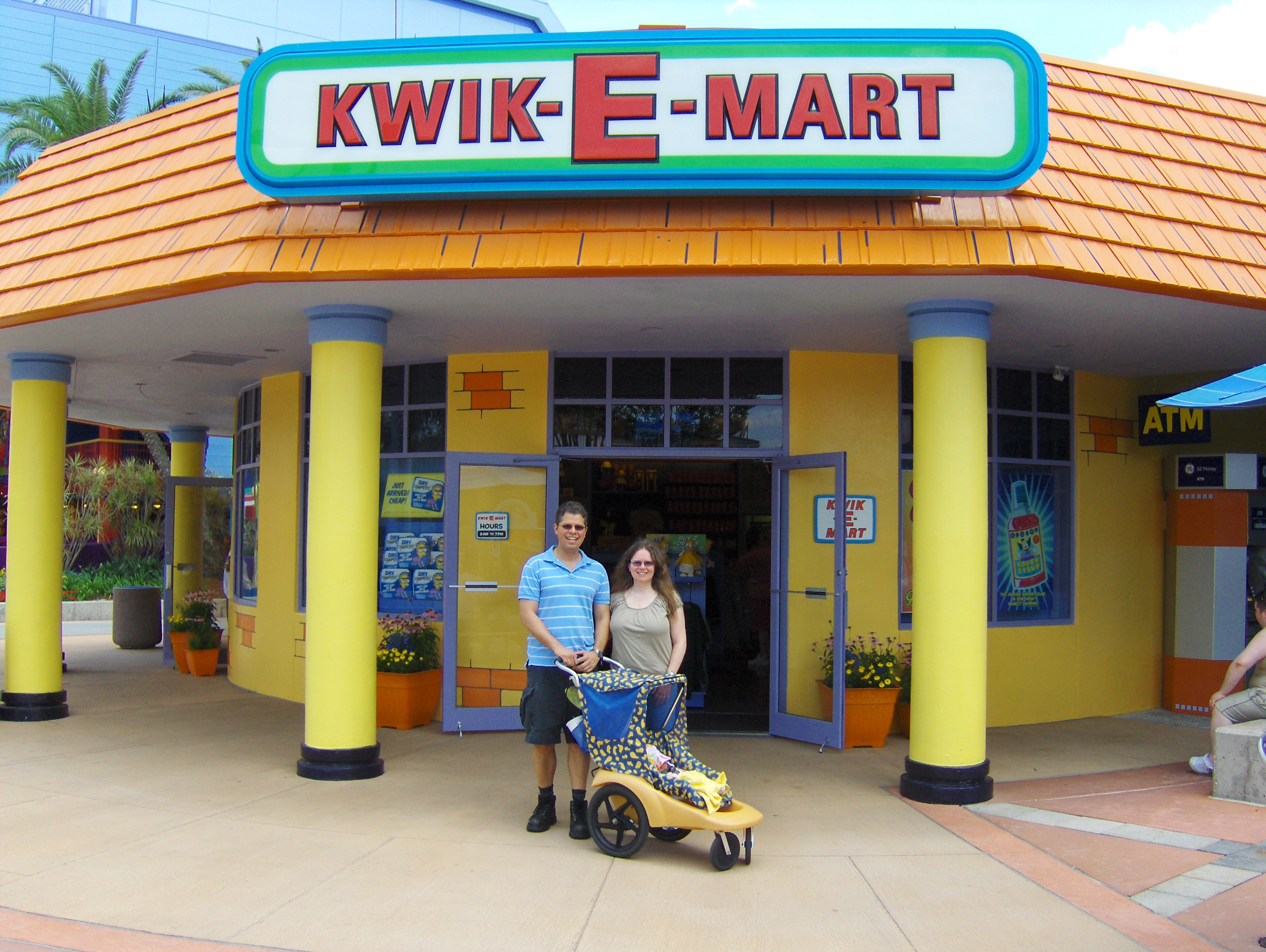 The Kwik-E-Mart at Universal Studios Florida, part of The Simpsons Ride